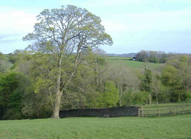 Woods and farmland, at Castellau